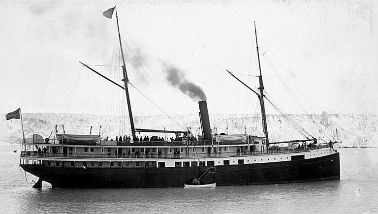 1,057 GRT passenger steamship City of Topeka beside the Muir Glacier, circa 1899. She was built in 1864 at Chester, Pennsylvania. The Pacific Coast Steamship Co operated her until 1916. From then until 1920 Admiral Line ran her between San Francisco and Portland. The Inter-Island Steamship Co bought her in 1920. The Los Angeles Steamship Co bought her in 1923 and renamed her Waimea. From then she ran between San Francisco and San Diego via Los Angeles until 1931. She was eventually sold, and in 1933 she was scrapped.